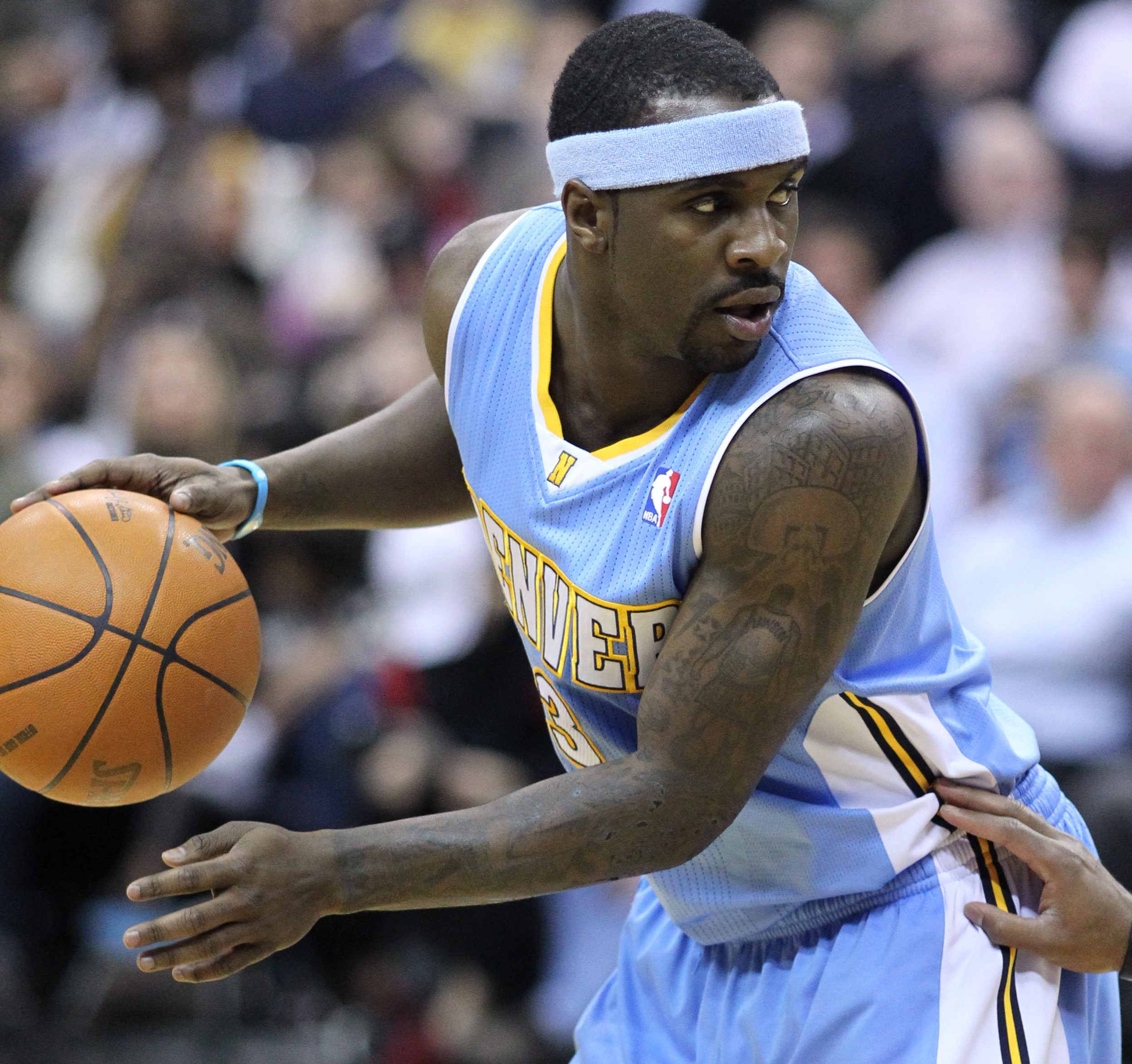 Washington Wizards v/s Denver Nuggets January 25, 2011